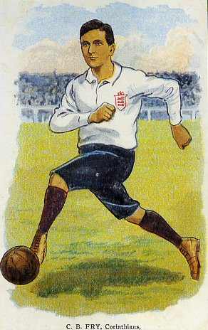 Artist impression used in Herriot Series postcards 'Famous Footballers' by William Collins and Sons, around 1905. Taken from The Official History of the Football Association ISBN 0356191451.